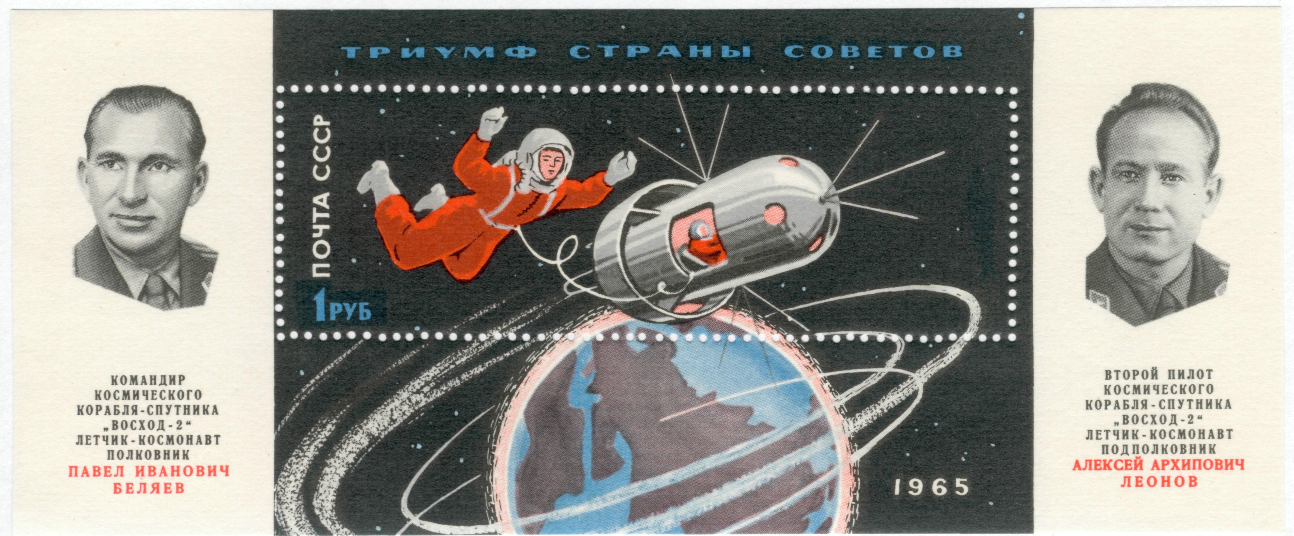 USSR miniature sheet, 1965: The Triumph of the Soviet Union. Voskhod-2 spacecraft-satellite.